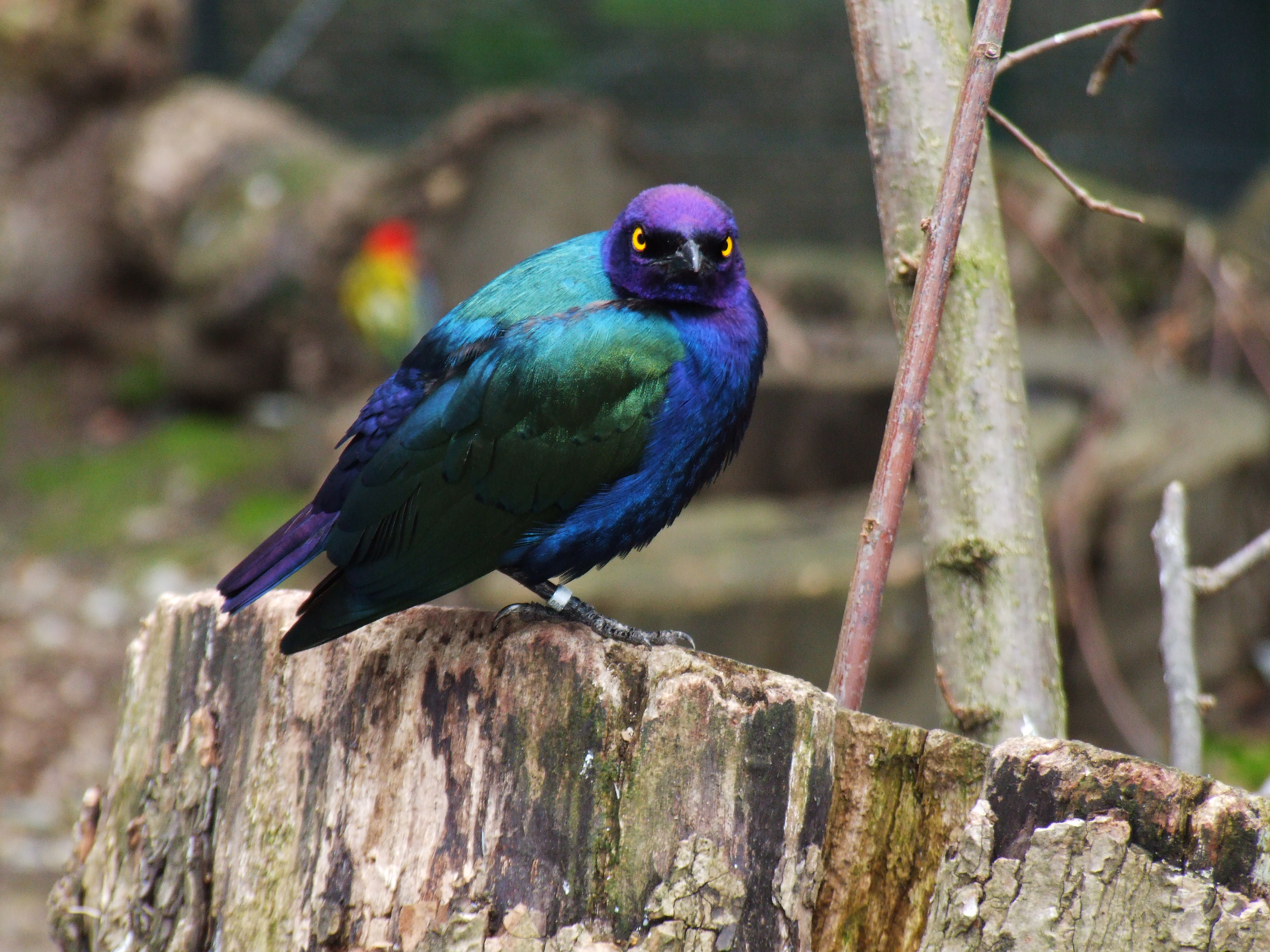 An adult Purple Glossy Starling at Kasteelpark, Born, Netherlands.